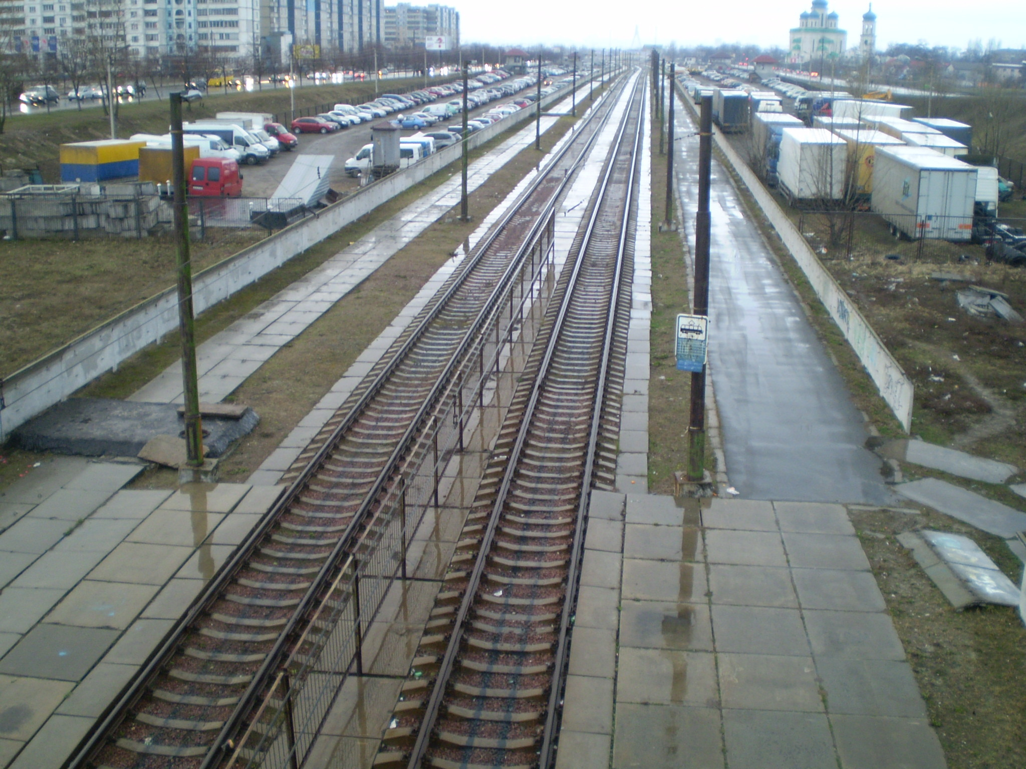 Tram #2 in Kiev